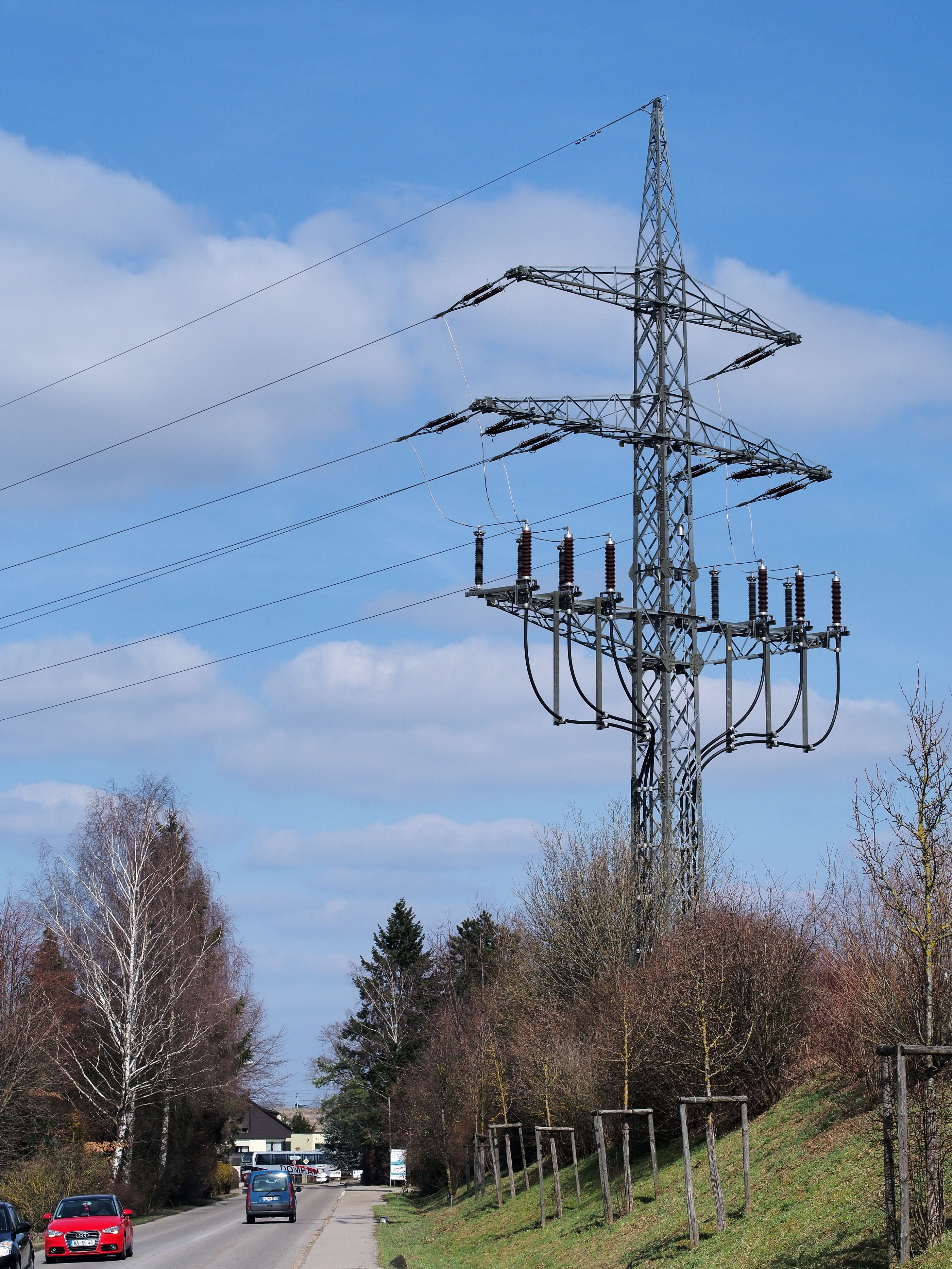 Dead-end pylon/termination tower of a 110 kV line which continues as ground cable